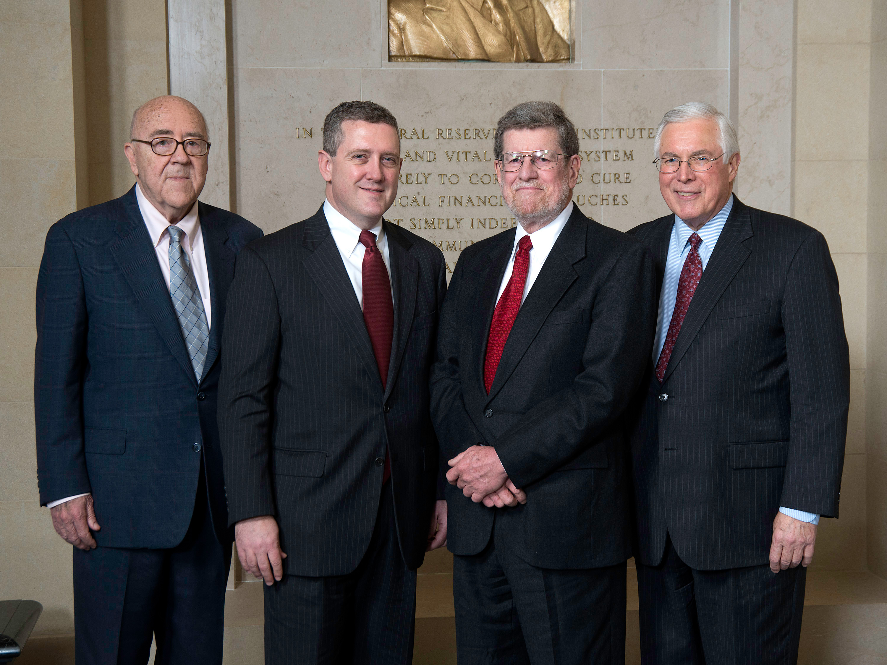 Current and Former FRB St. Louis Presidents (Left to Right: Theodore H. Roberts; James B. Bullard; William Poole; Thomas C. Melzer)